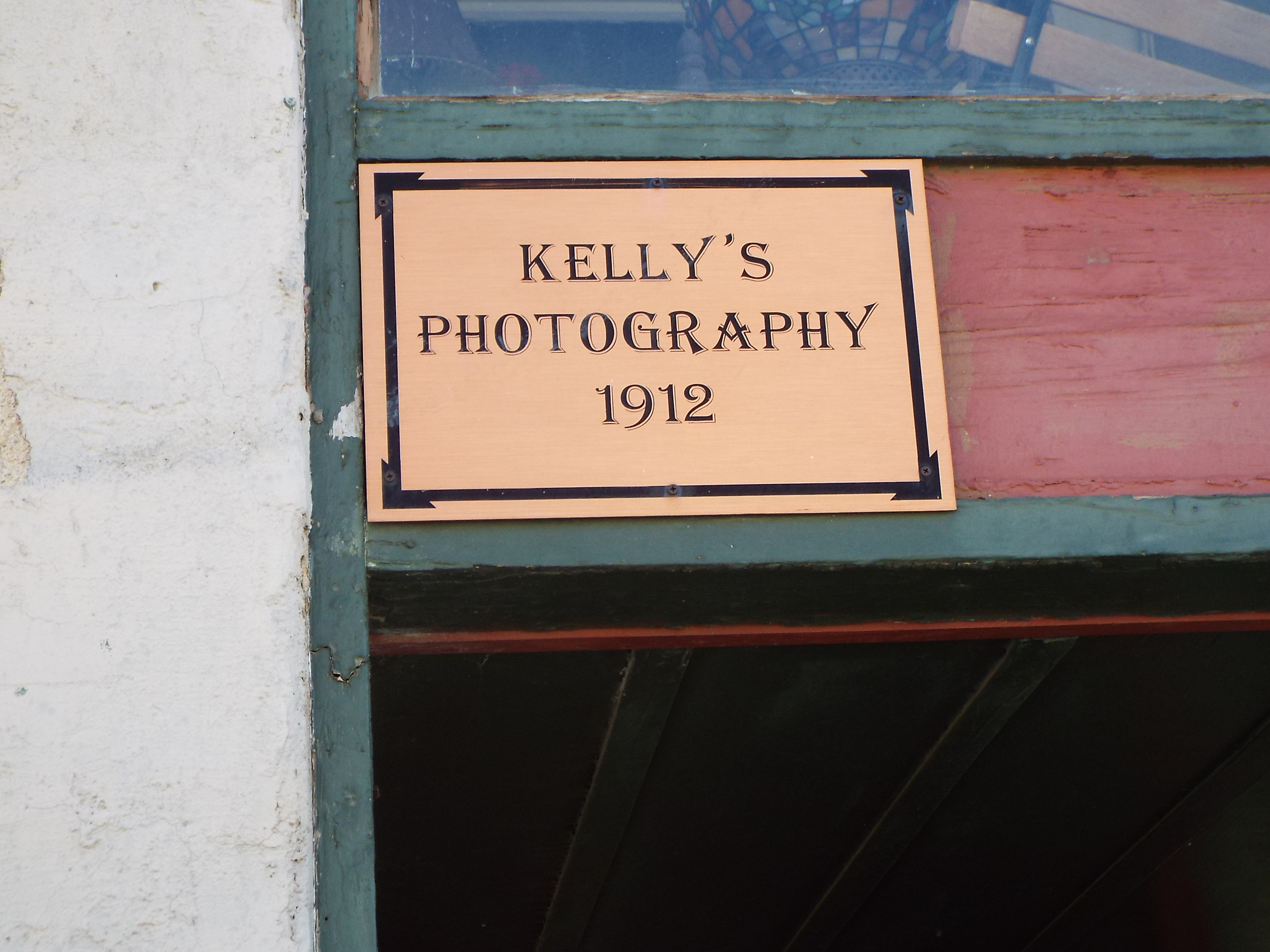 Miami, Az-Kelly’s Photography Building-517 Sullivan Street-1912